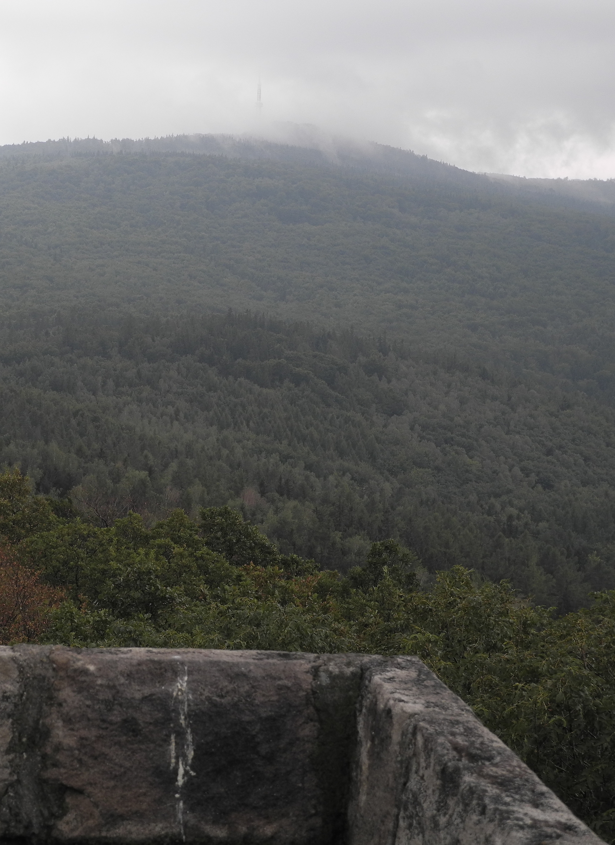 Ślęża